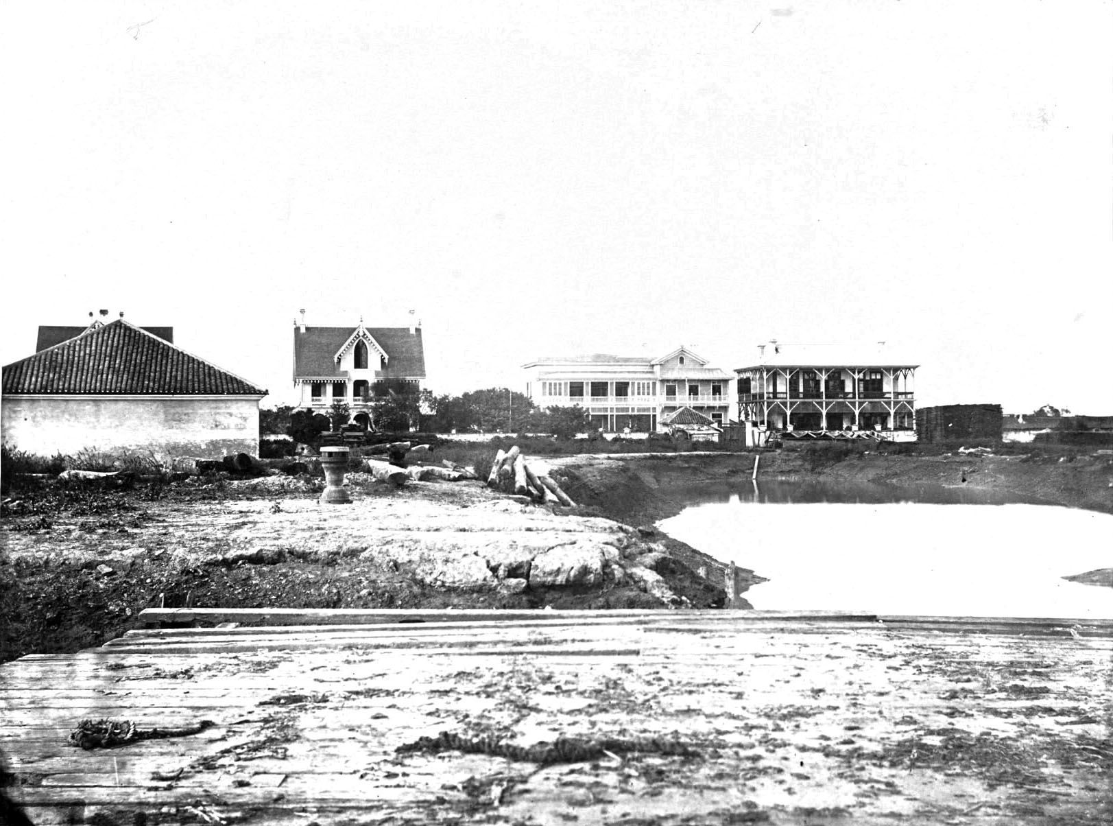 Photograph in From Afong, Photographer.